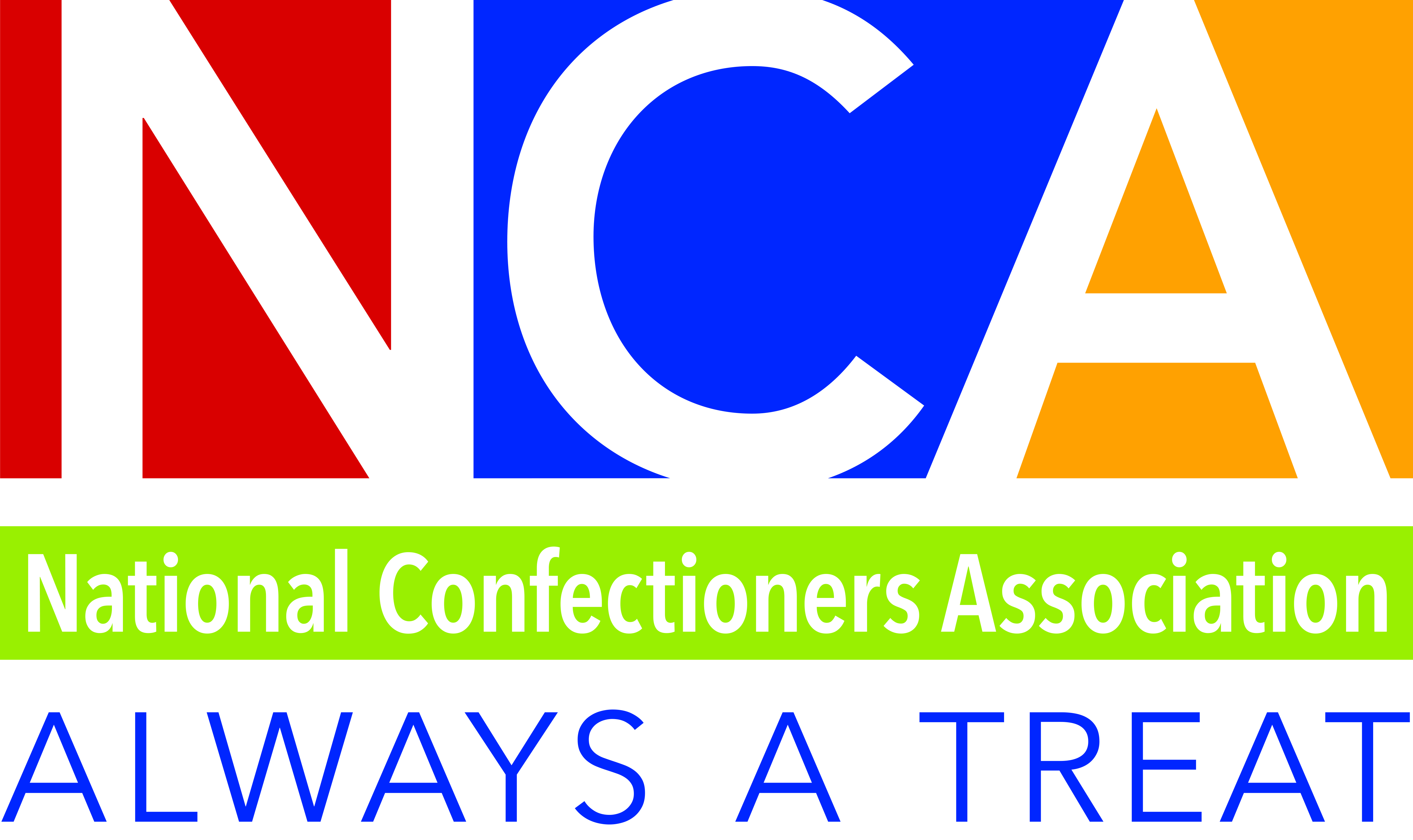 NCA logo